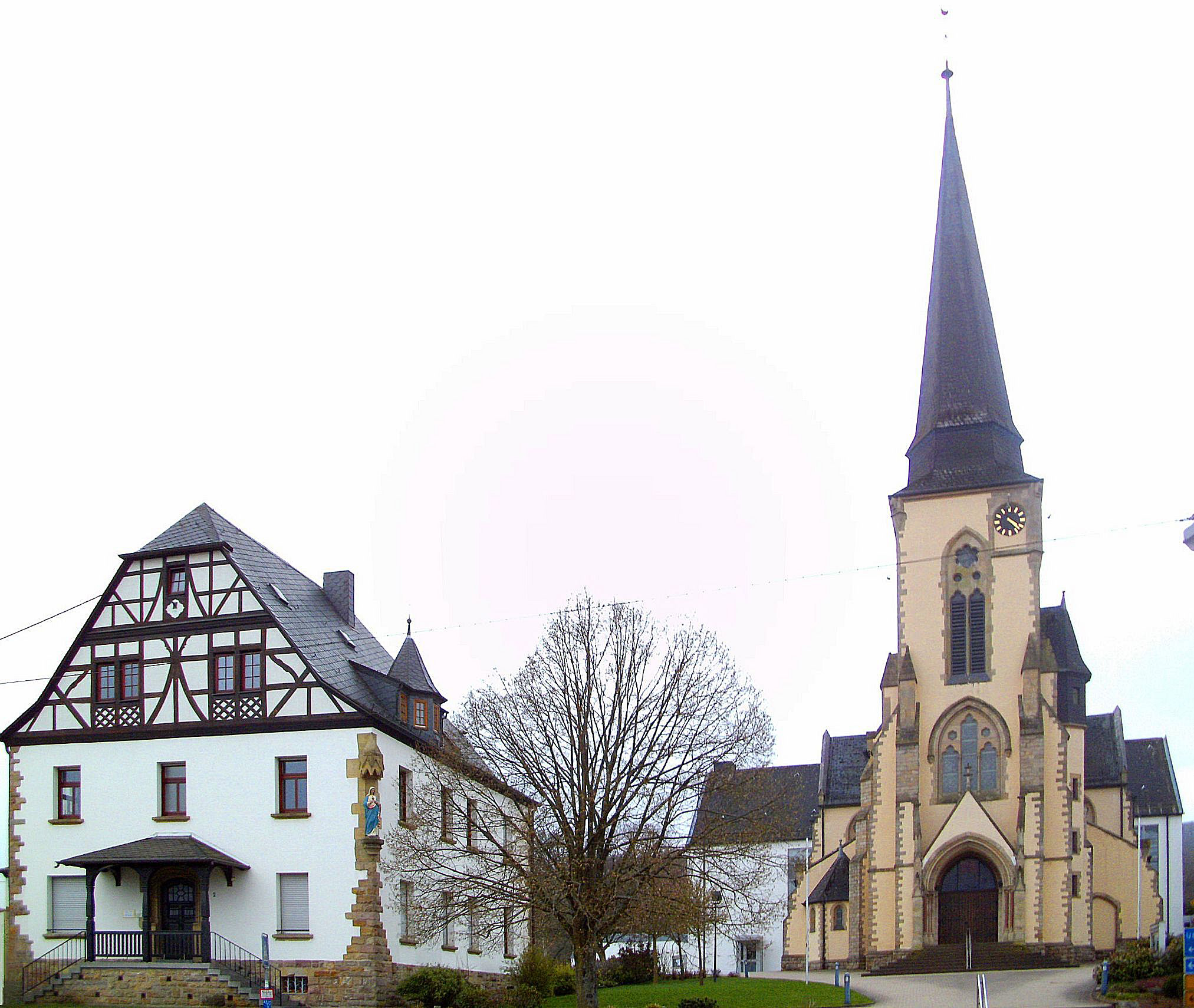 church of Hasborn Dautweiler